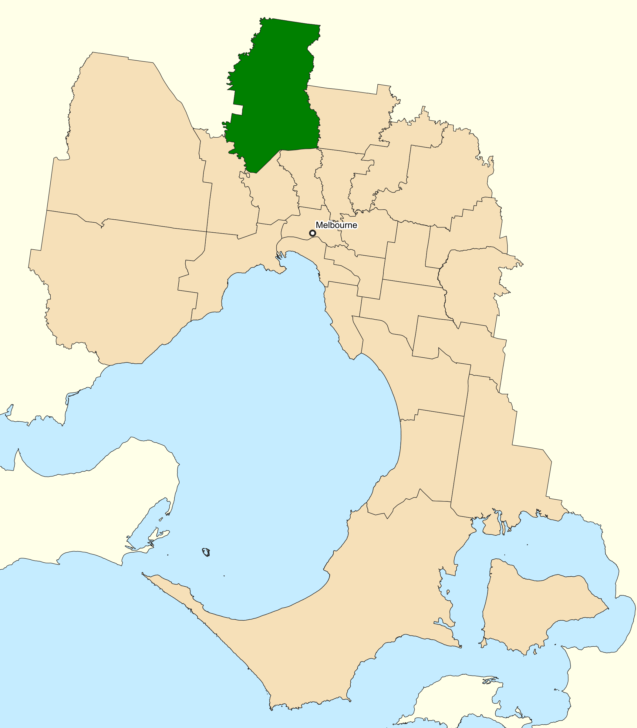 Location of the Australian federal electoral division of Calwell (dark green) in Greater Melbourne, Victoria as of the 2019 Australian federal election. Incorporates or developed using Administrative Boundaries ©PSMA Australia Limited licensed by the Commonwealth of Australia under Creative Commons Attribution 4.0 International licence (CC BY 4.0).